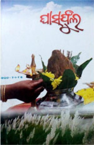 Quaterly literature magazine of Editor Bishnu Sethi